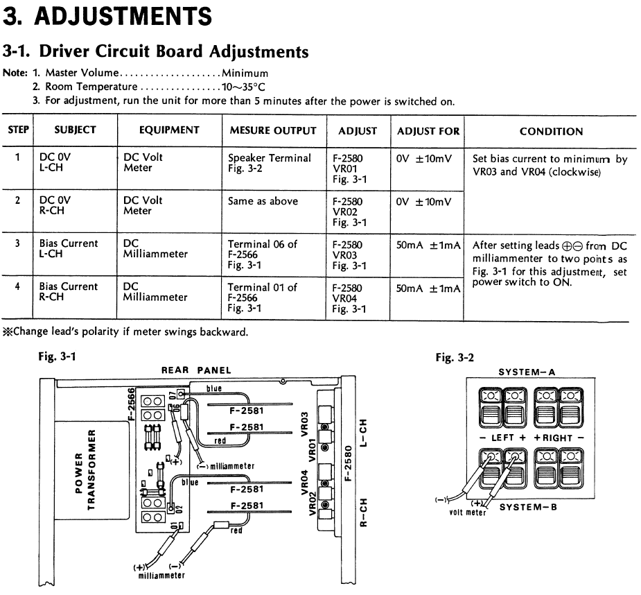 Sansui AU-11000 F-2580 DC Offset & Current Bias Adjustment Procedure as stated in the Sansui AU-11000 & AU-9900 Service Manual.